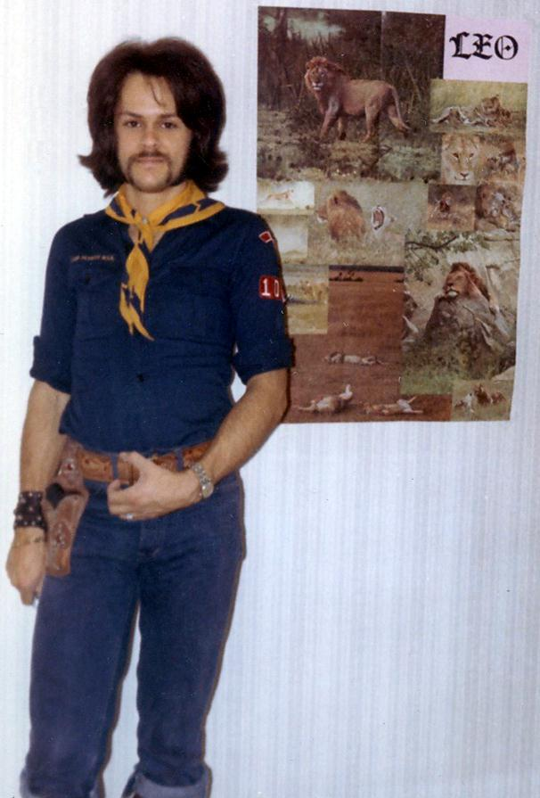 A leo type hippie (Lars Jacob with his Leo astrology poster) in a Cub Scout shirt and packing a holstered squirt gun, as released by image creator Lars Jacob ProdPlace: Upplandsgatan 51, Stockholm, Sweden